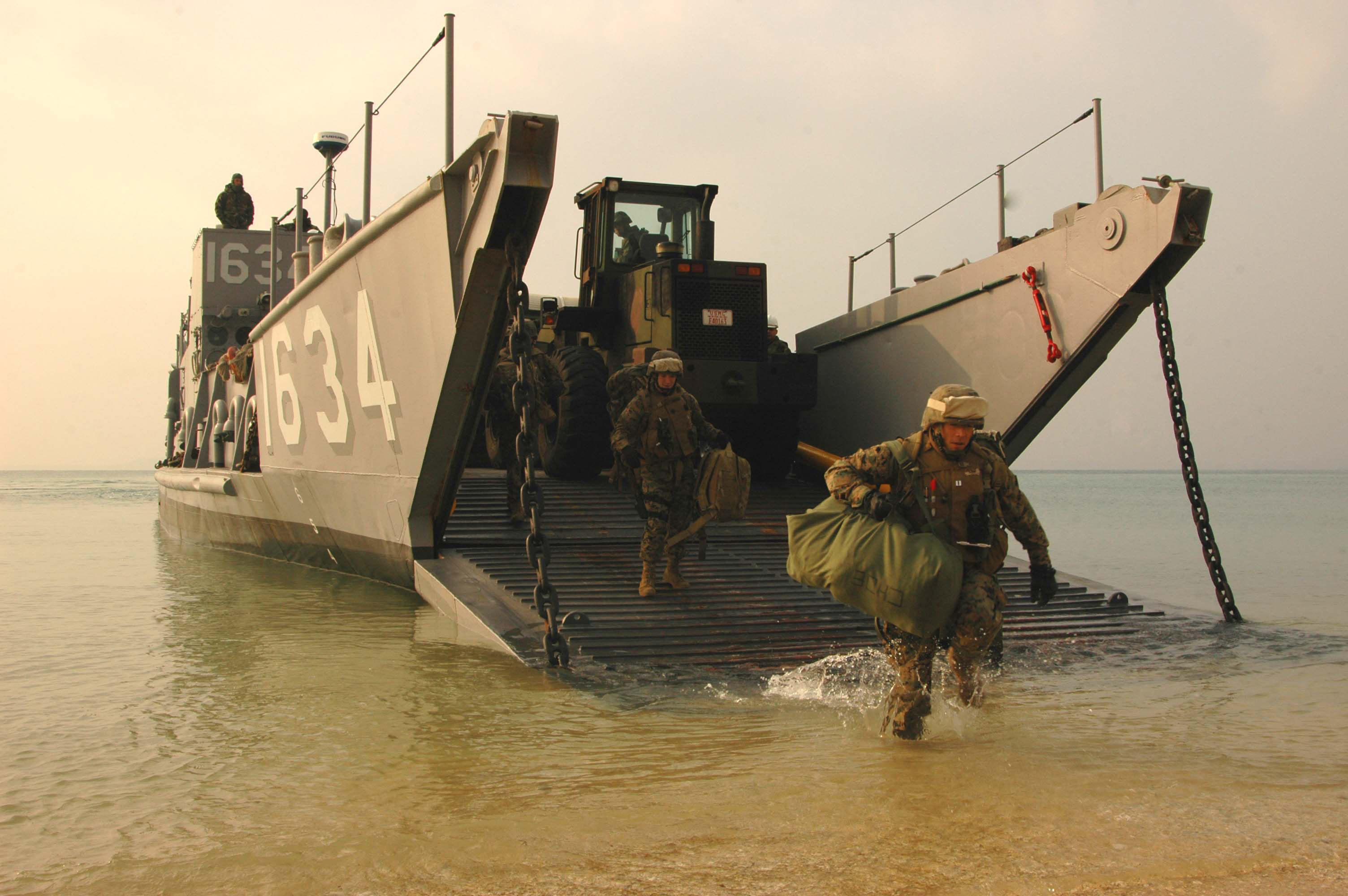 U.S. Marines from the 31st Marine Expeditionary Unit wade ashore at the Kin Blue Beach Training Area in Okinawa, Japan, on Feb. 11, 2007. The Marines are participating in an on-load and offload exercise while under way for spring patrol with amphibious assault ship USS Essex (LHD 2).